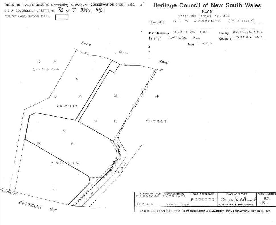 Hestock: PCO Plan Number 092